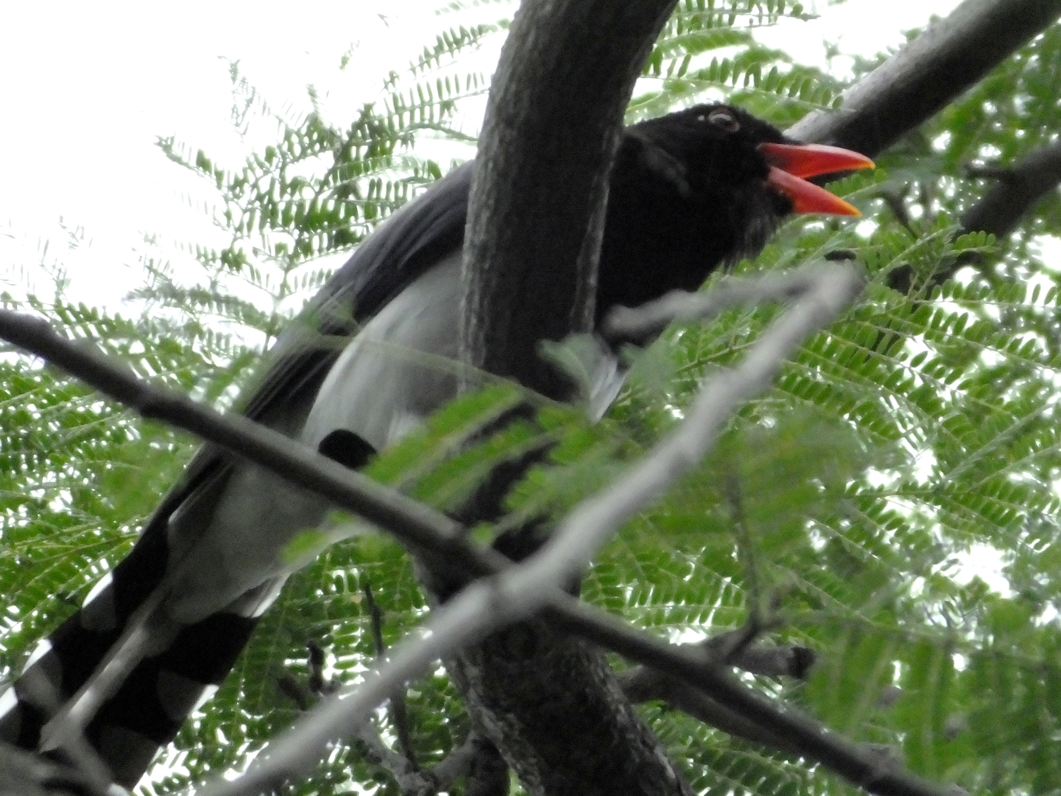 Saw at hillside.